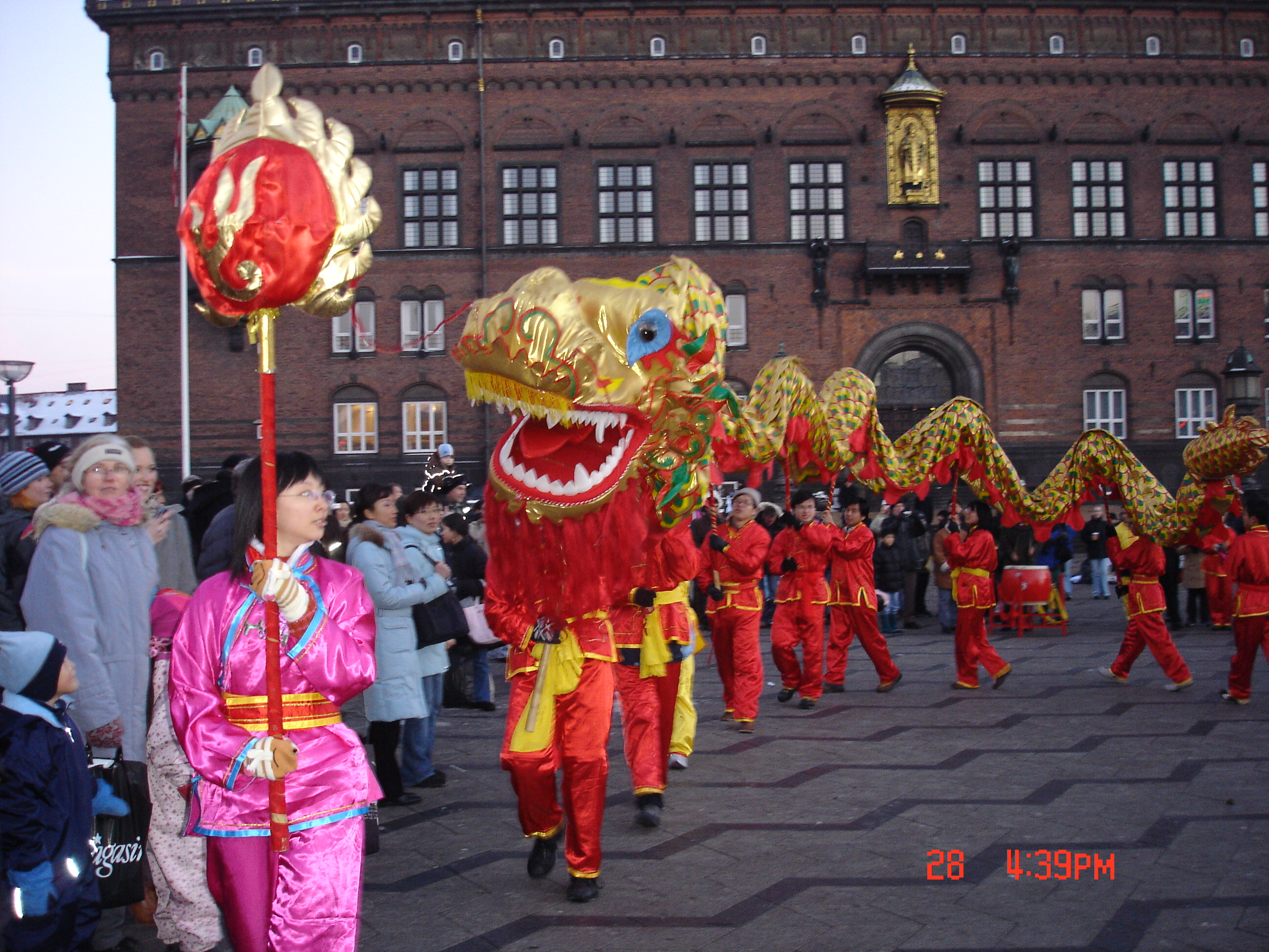 celebration af chinese new year at city hall square in copenhagen denmark 2006.